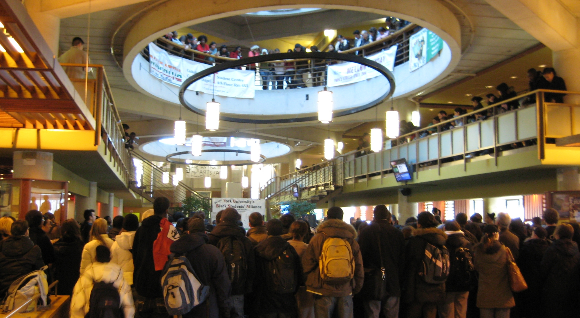 Anti-racism protest York University student center